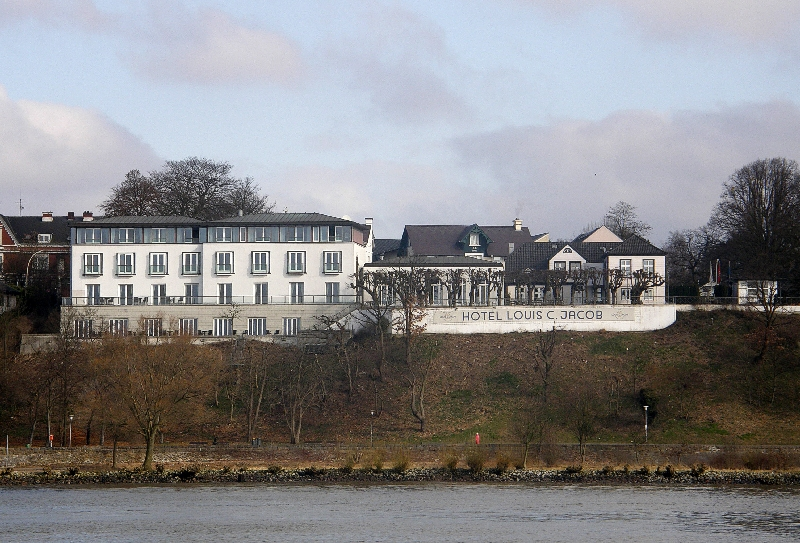 Pictures from Hamburg. The Louis C. Jacob is an inn since 1765 (and a Hotel-Restaurant since 1791) located at No.401/403, Elbchaussee in Nienstedten. In 1902 Max Liebermann painted his picture „Terrasse of the restaurant Jacob in Nienstedten upon Elbe“ which can be seen in the Kunsthalle Hamburg today. Robert Redford and Sybille Szaggars married in Juli 2009 in the Hotel Louis C. Jacob.